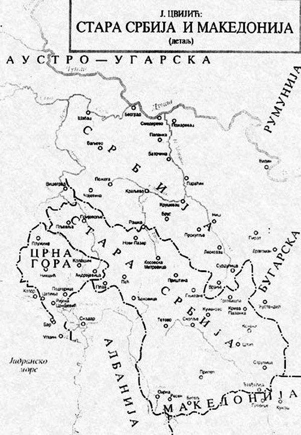 Map showing Old Serbia (Stara Srbija) in relation to the Kingdom of Serbia, by Jovan Cvijić in circa 1910.